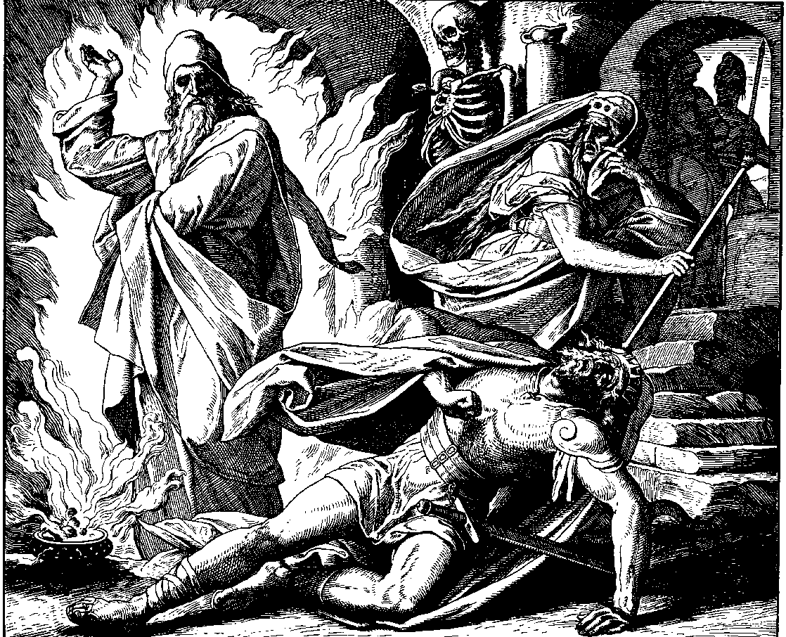 Woodcut for "Die Bibel in Bildern", 1860.